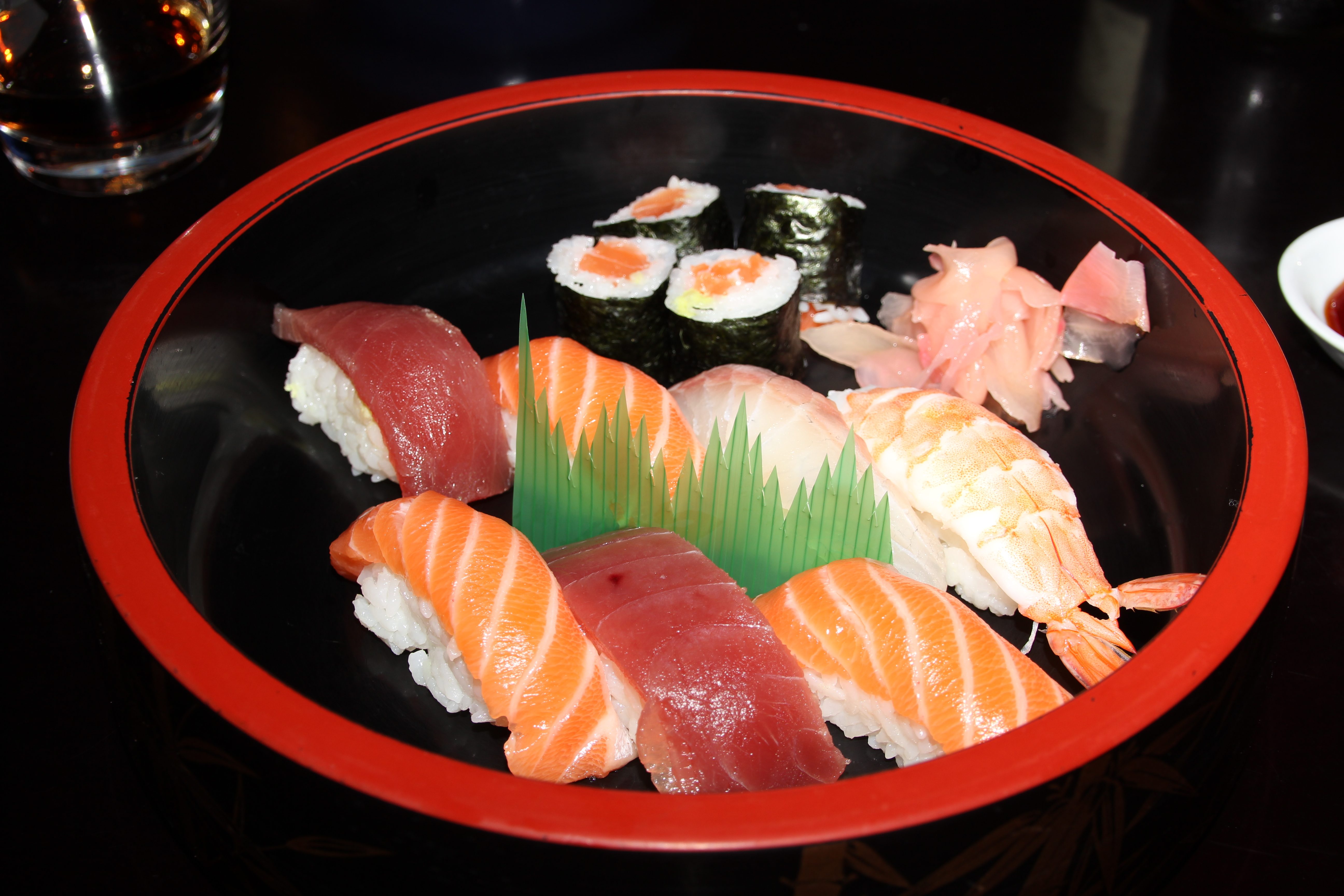 Japanese dish in At sunrise sushi restaurant located 15 Berthe Molly street in Colmar, France.